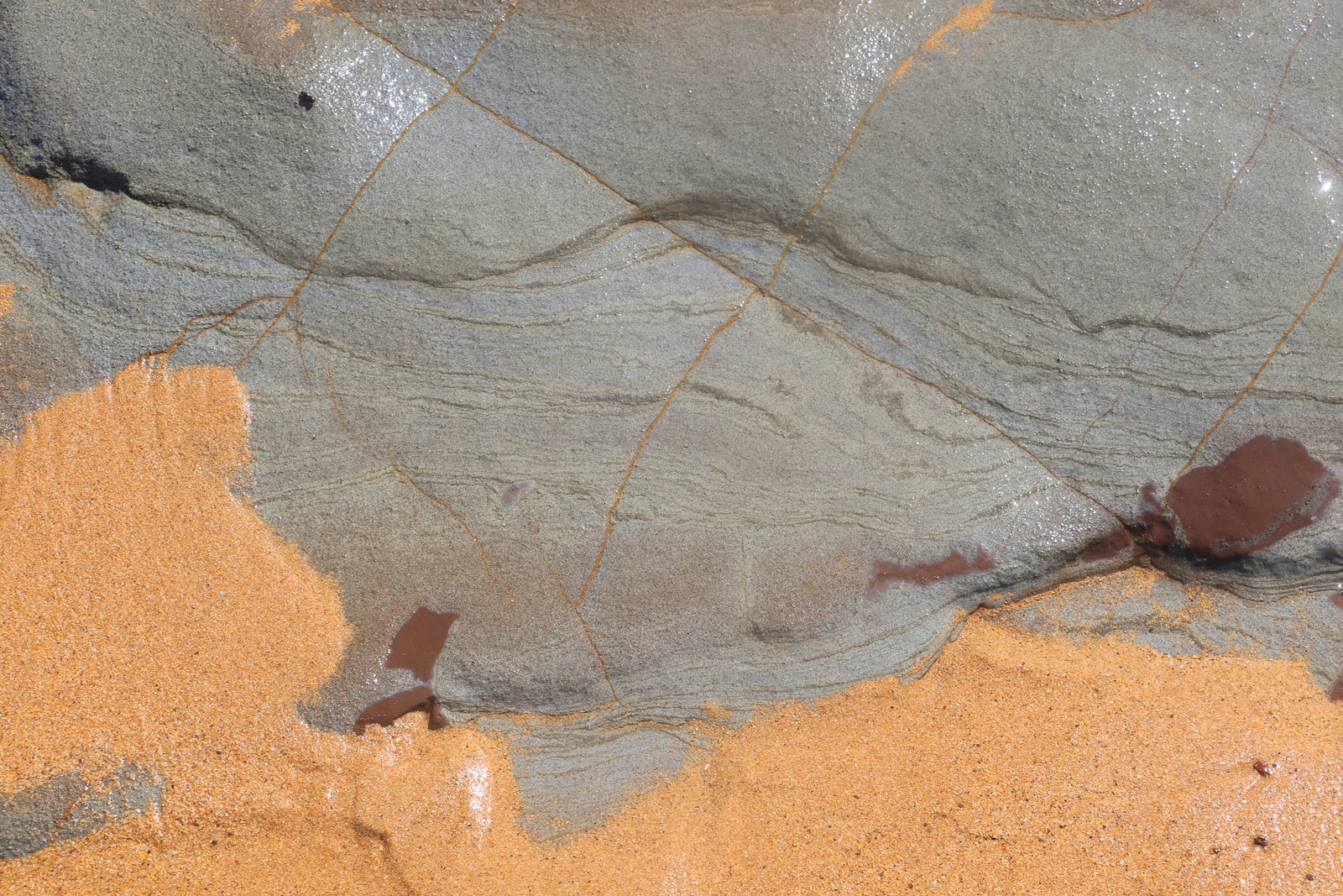 almost certainly Bulgo sandstone. Long Reef, NSW, Australia